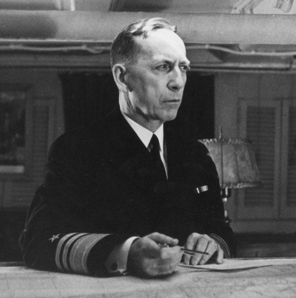 United States Navy Vice Admiral Royal E. Ingersoll (1883-1976)